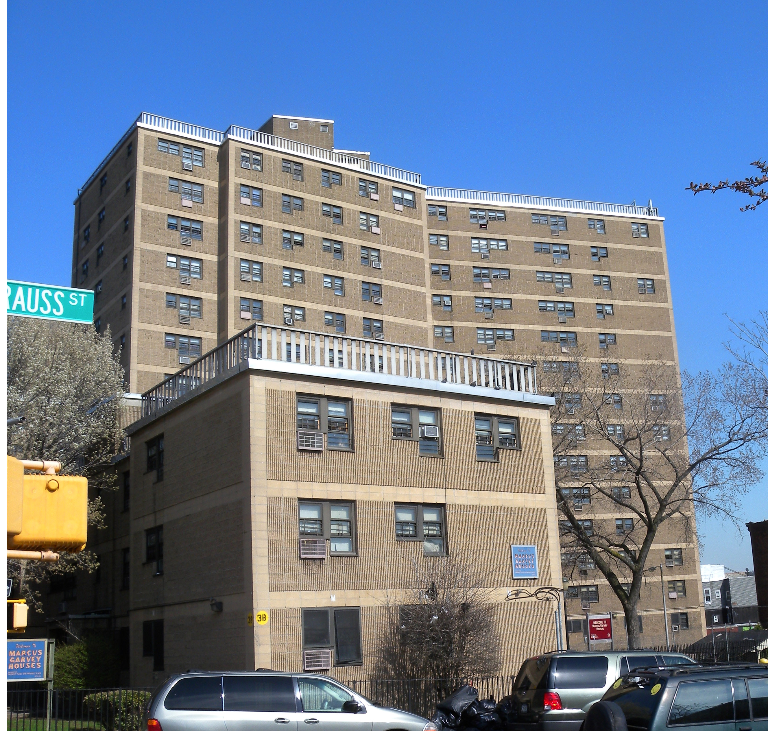 Looking east from East New York Avenue and across Strauss Street at Marcus Garvey Houses in Brownsville, Brooklyn on a sunny afternoon.